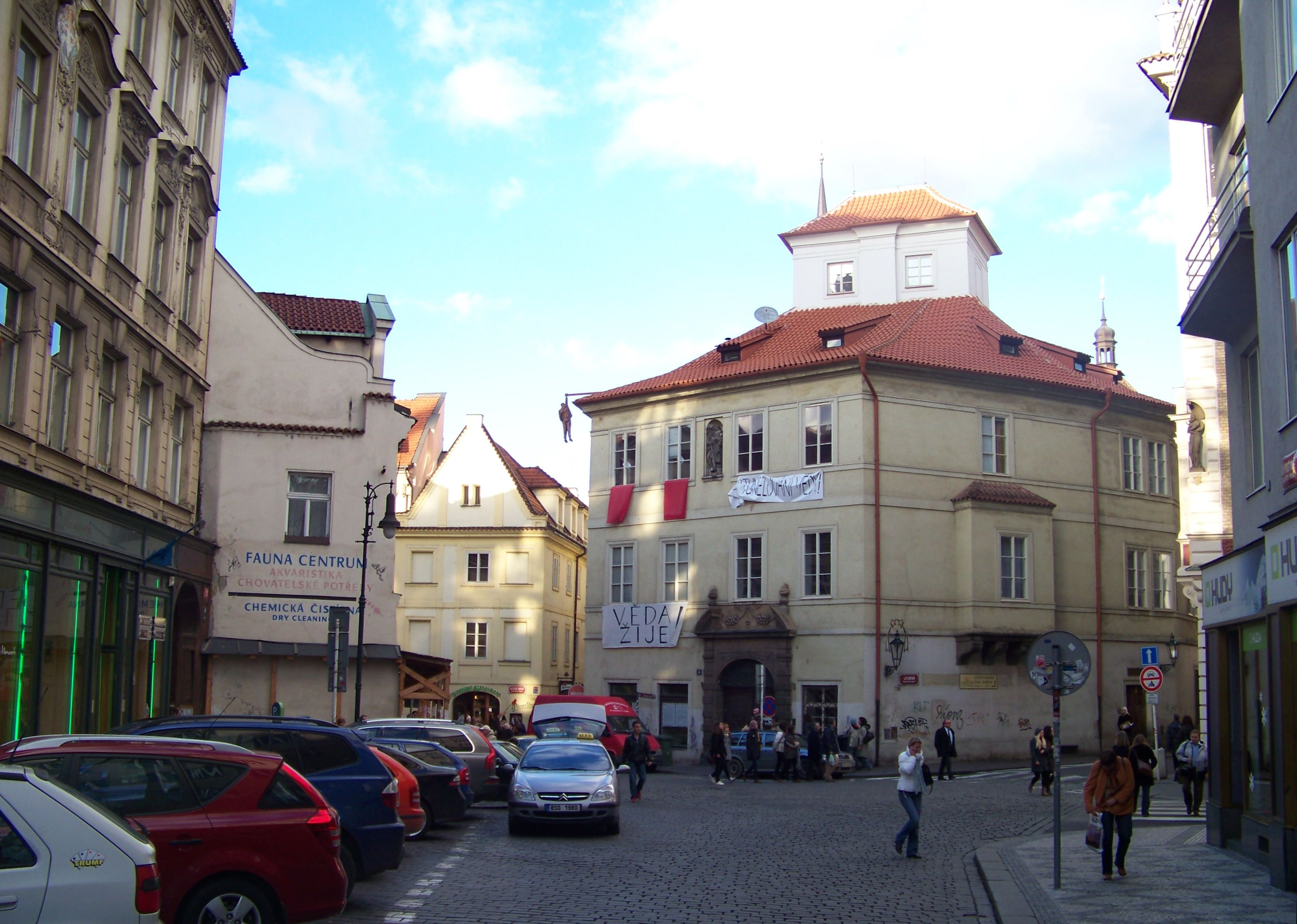 Prague, Old Town, the Czech Republic. Na Perštýně Street, U Sladkých House.